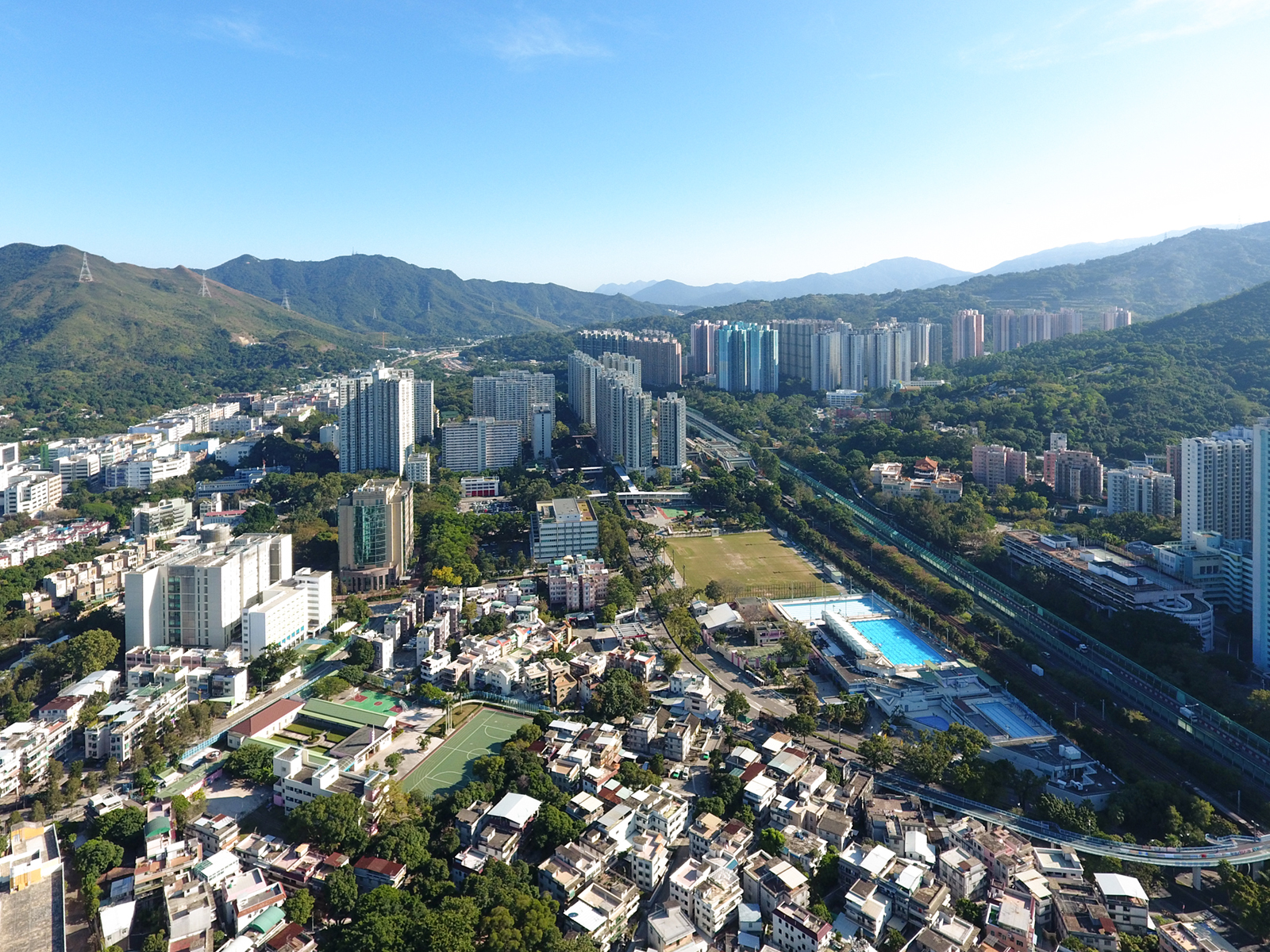 Fanling New Town